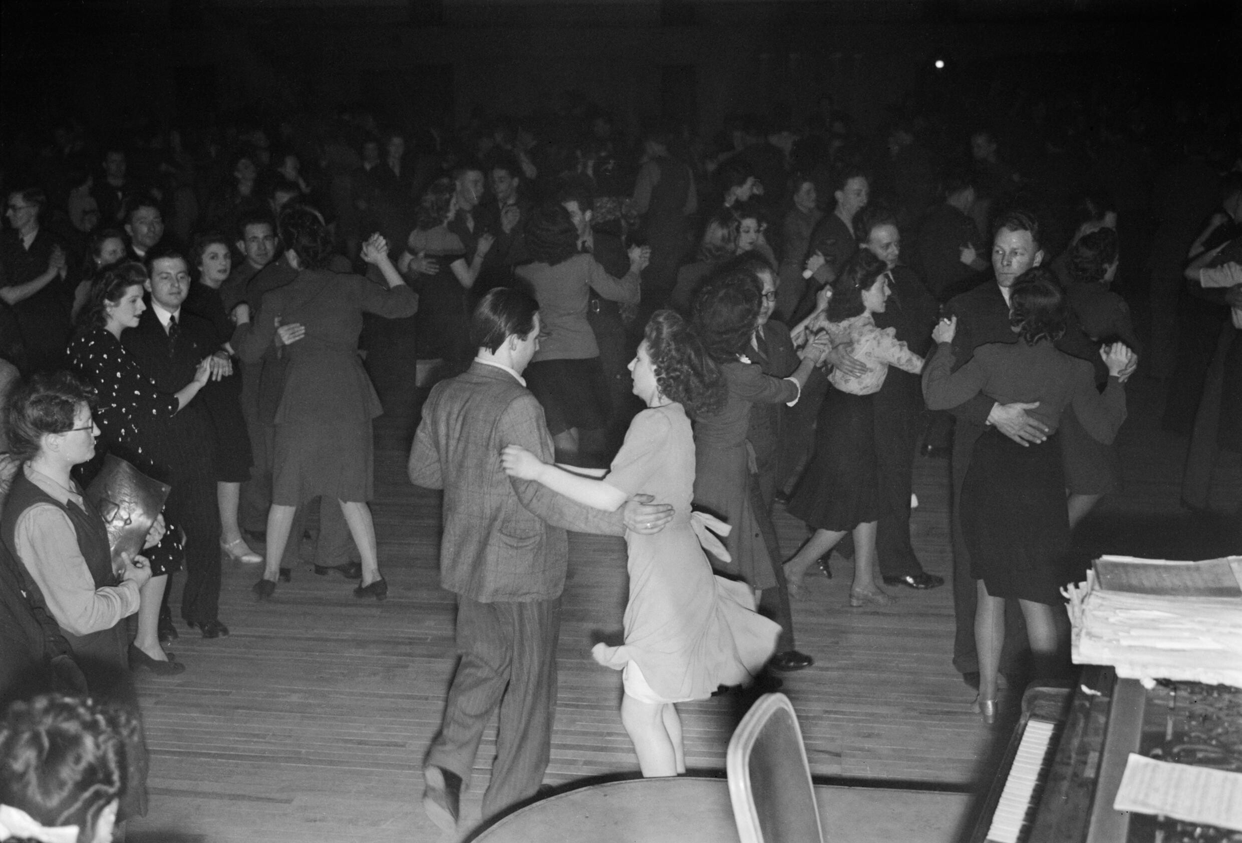 New Style Dancing Arrives- the Introduction of the Jive Into British Dance Halls, 1945 A couple at a British dance hall try out the new 'jive' steps, whilst the rest of the hall continue with 'old-style' ballroom dancing.